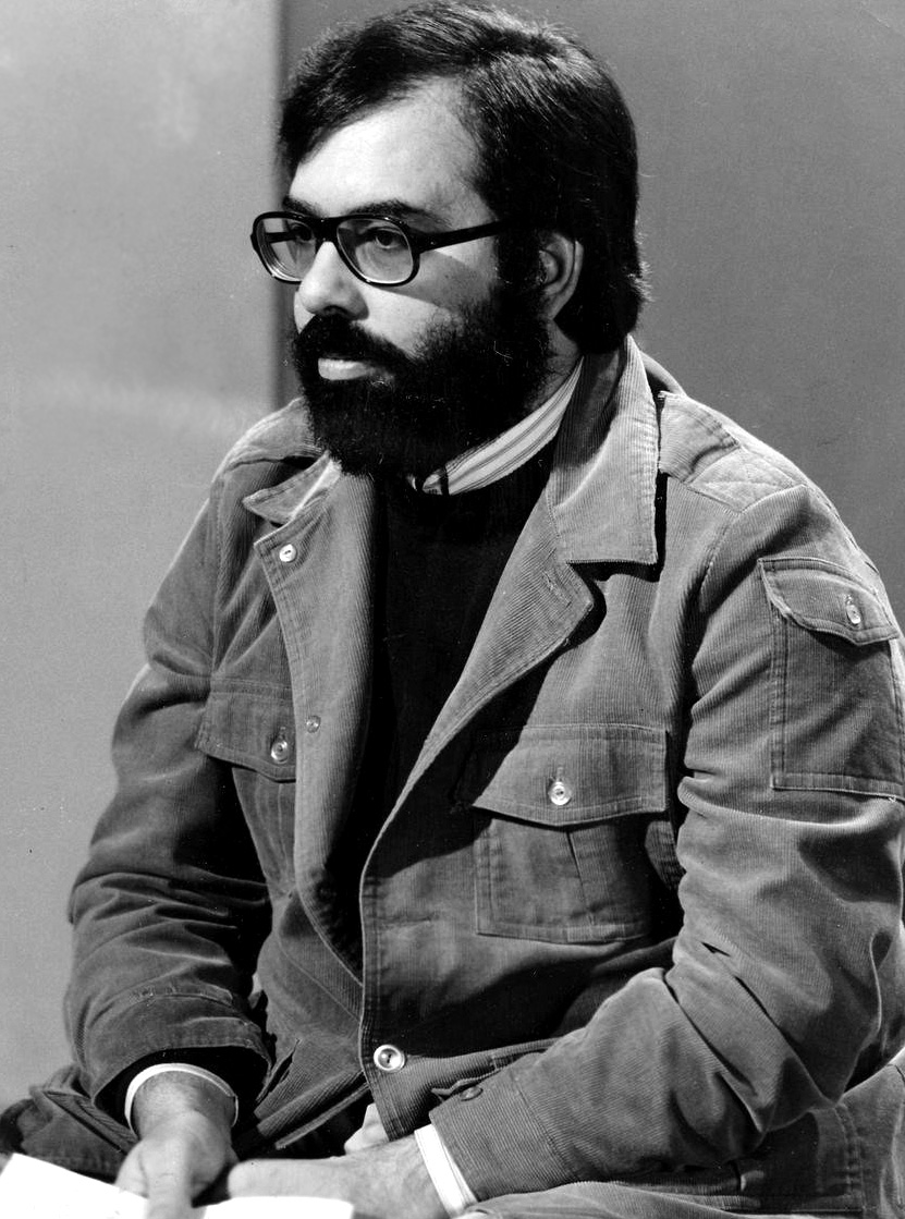 Photo of Francis Ford Coppola to promote a TV program, "Tomorrow" on NBC.